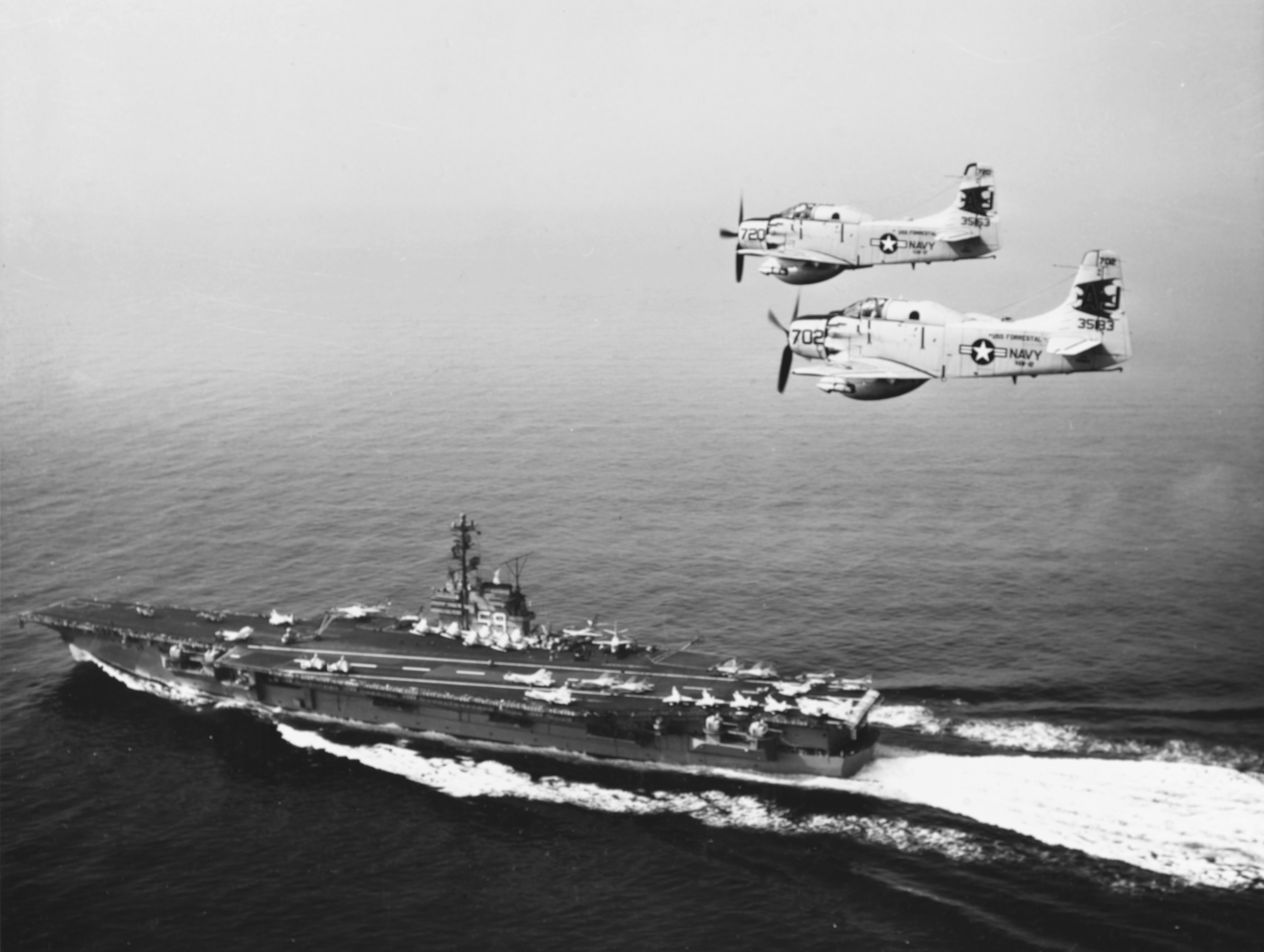 Two U.S. Navy Douglas AD-5W Skyraider (BuNo 135163, 135183) from Carrier Airborne Early Warning Squadron 12 (VAW-12) Det.42 "Bats" fly over the aircraft carrier USS Forrestal (CVA-59), while she was operating with the Sixth Fleet in the Mediterranean Sea, 25 April 1960. VAW-12 Det.42 was assigned to Carrier Air Group 8 (CVG-8) aboard the Forrestal for a deployment to the Mediterranean Sea from 28 January to 31 August 1960.